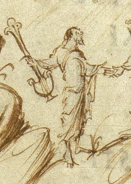 Instrument (long-necked lute) called a cythara from the 9th Century Utrecht Psalter, thought to have been made in Reims. Published in manuscript in the 9th Century. Pertinent Latin text on page reads Confitebor tibi in cithara Deus Deus meus (To thee, O God my God, I will give praise upon the harp); the illustration of cithara shows a guitar/lute-like instrument.